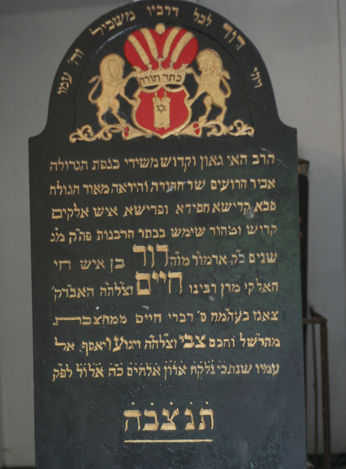 Duvid Halberstam's matzeva, the Halberstams' ohel, Chrzanow Jewish cemetery